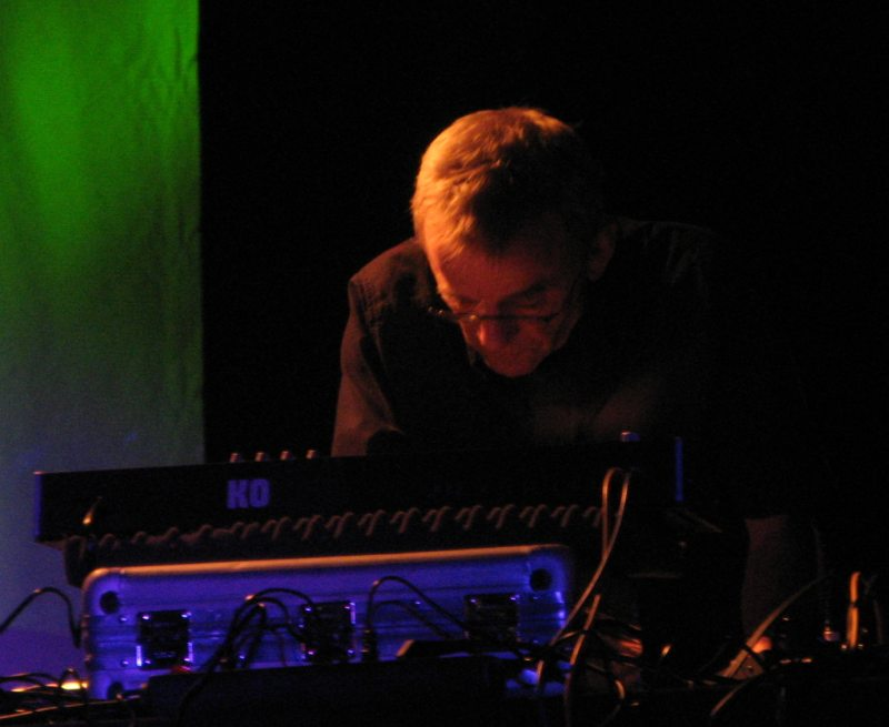 German/Swiss electronic experimental musician Dieter Moebius (ex - Cluster/Kluster, Harmonia). This photo was taken live at a concert of ROTHER & MOEBIUS (an electronica /ambient-krautrock collaboration project of Michael Rother & Dieter Moebius) in Frankfurt am Main/Germany (at "Sinkkasten"). More pictures from the same concert: Image:Michael_rother_2007-11-14_live1.jpg, Image:michael_rother_2007-11-14_live2.jpg, Image:michael_rother_and_dieter_moebius_2007-11-14_live.jpg